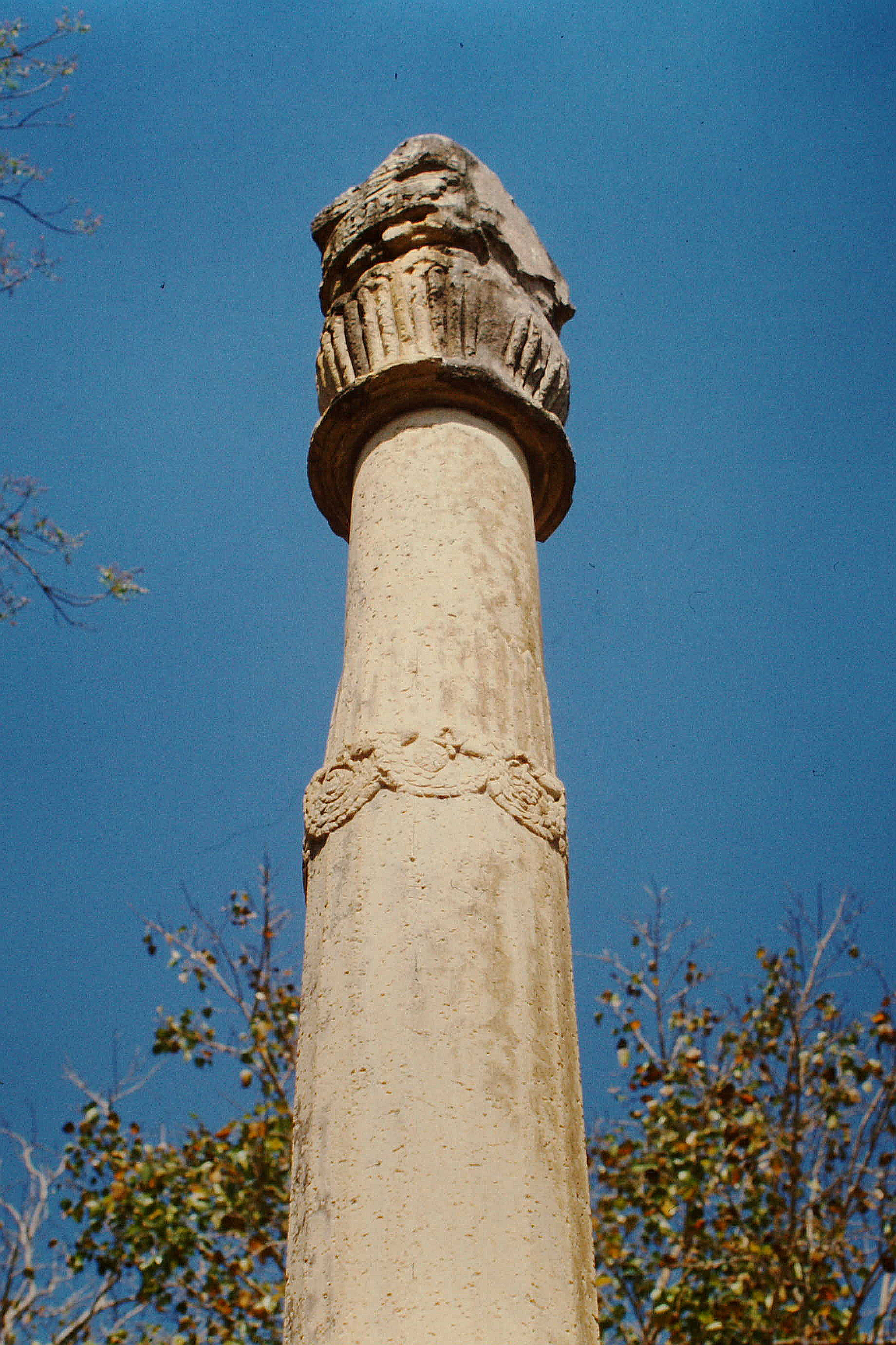 Heliodorus-Column